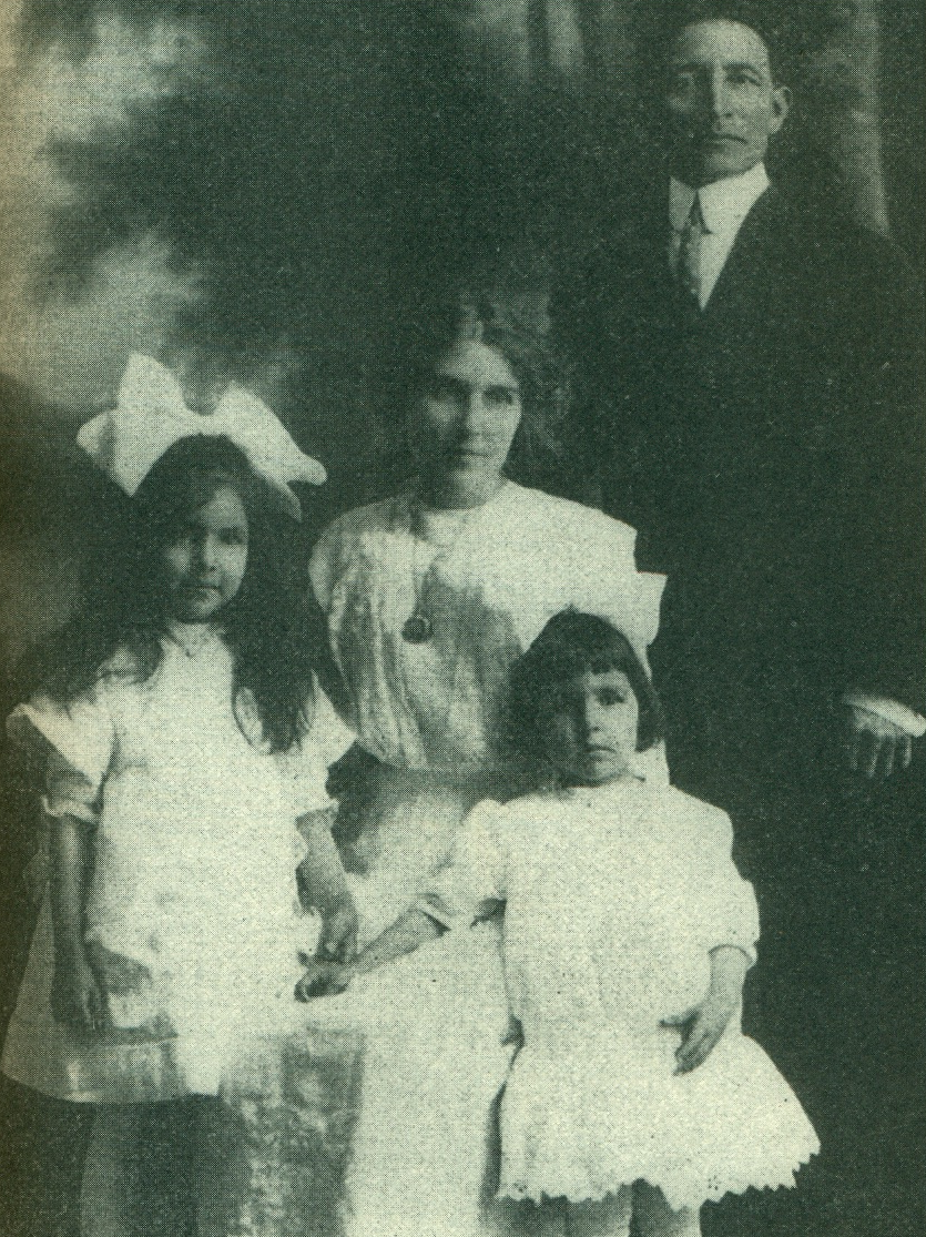 Chauncey Yellow Robe family in 1915. Left to right: Rosebud, Lillie, Chauncina and Chauncey, as they appeared in Holiday Greetings from the Rapid City Journal, Rapid City, South Dakota Other information No.